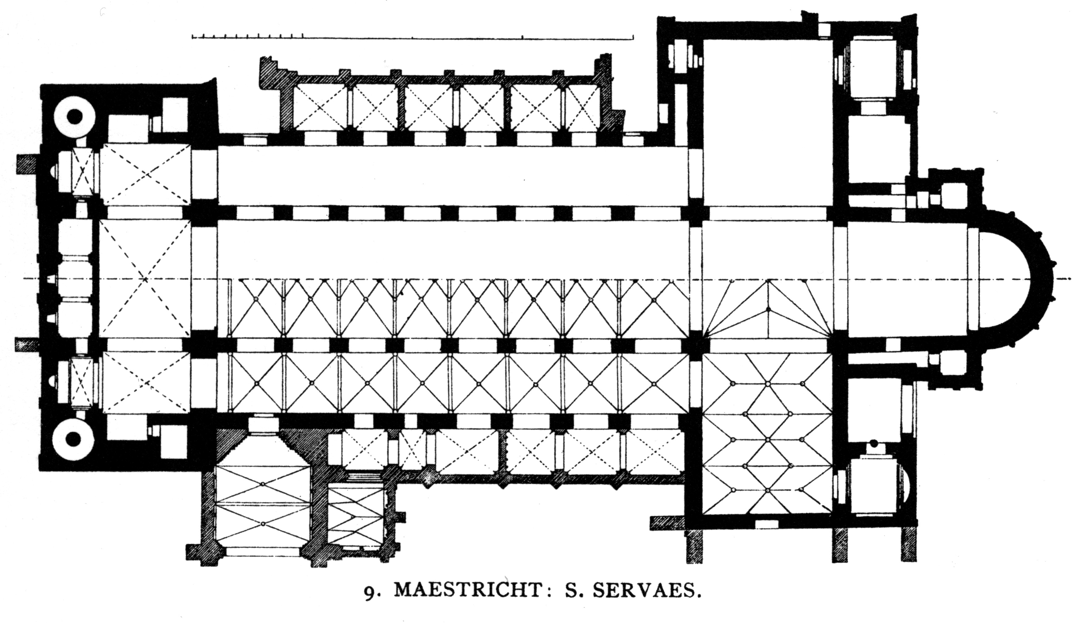 Maastricht, S. Servaes Cathedral, floor plan.